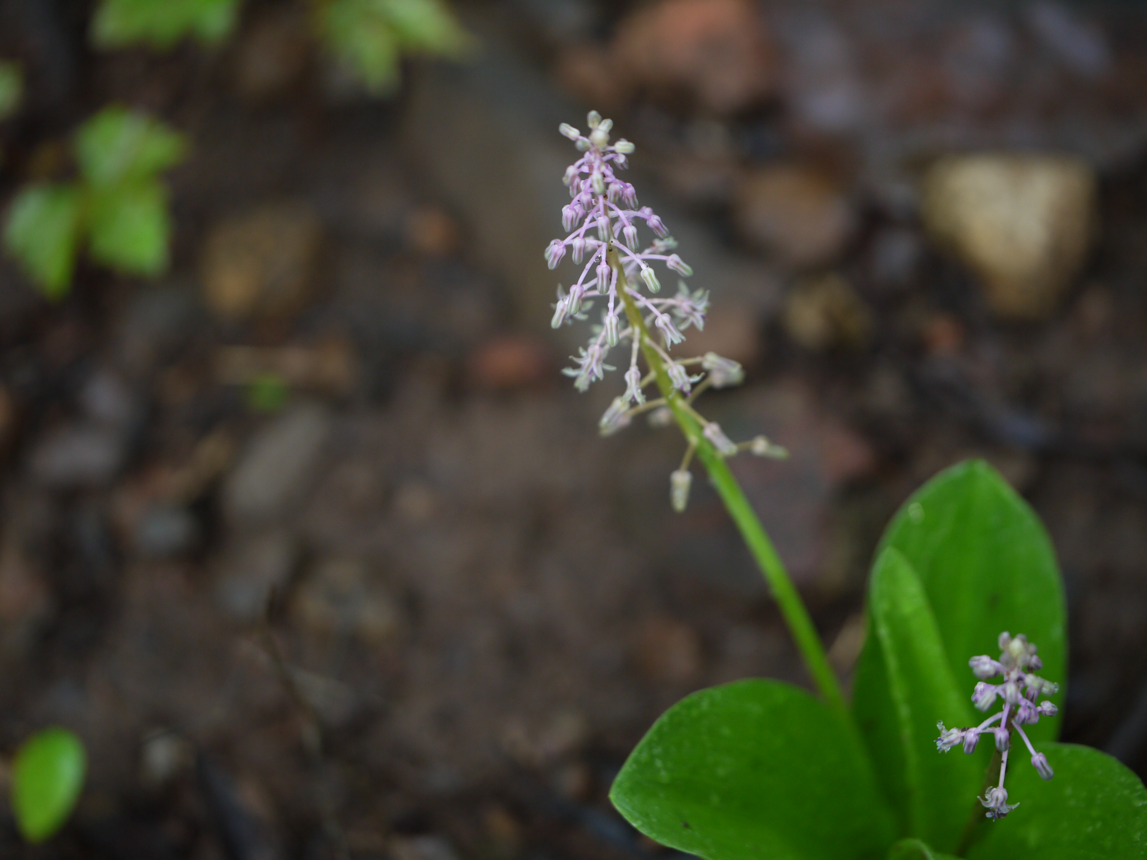 Asparagaceae (asparagus family) » Ledebouria revoluta (L.f.) Jessop le-de-BOR-ree-a -- named for Karl Friedrich von Ledebour, German botanist re-vo-LOO-tuh -- rolled back from margins or apex commonly known as: common ledebouria, south Indian squill • Kannada: ಕಾಡು ಬೆಳ್ಳುಳ್ಳಿ kaadu bellulli • Marathi: भुईकांदा bhuikanda, खाजकांदा khajkanda • Telugu: అడవి తెల్లగడ్డ adavi tellagadda Native of: tropical and s Africa, India, Sri Lanka References: Flowers of India • The Plants List • NPGS / GRIN • ENVIS - FRLHT